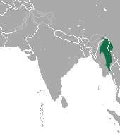 Eastern Hoolock Gibbon (Hoolock leuconedys) range